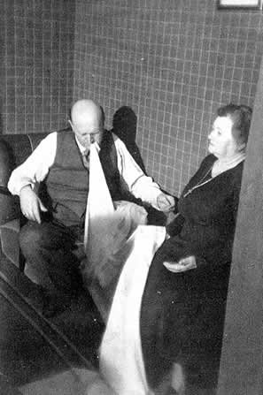 The medium Einer Nielsen at a seance.